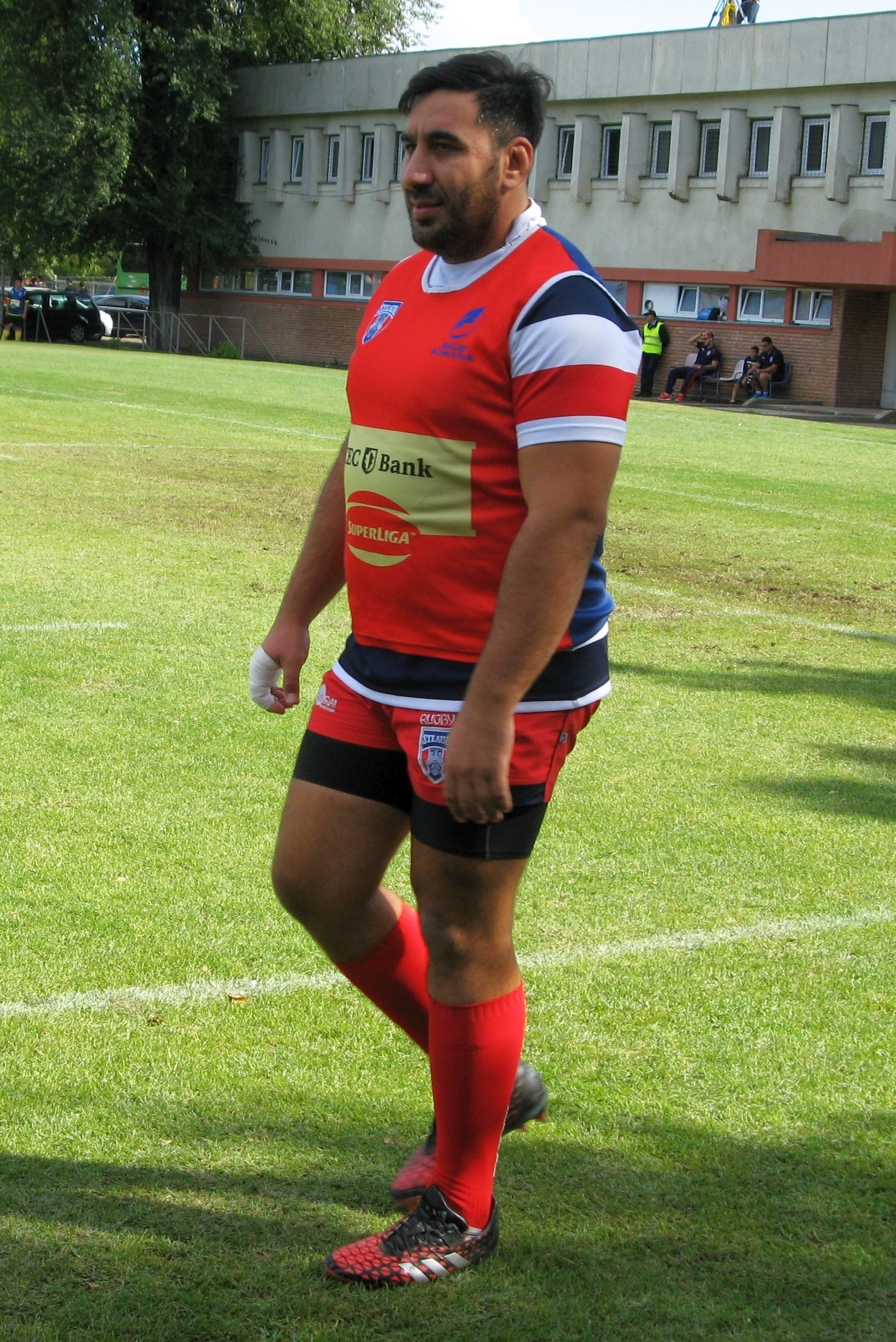 Romanian rugby union international Nicolae Nere, player of CSA Steaua București rugby club seen training before a match against CSM Baia Mare in Round 5 of Romanian Rugby SuperLiga in September 2017